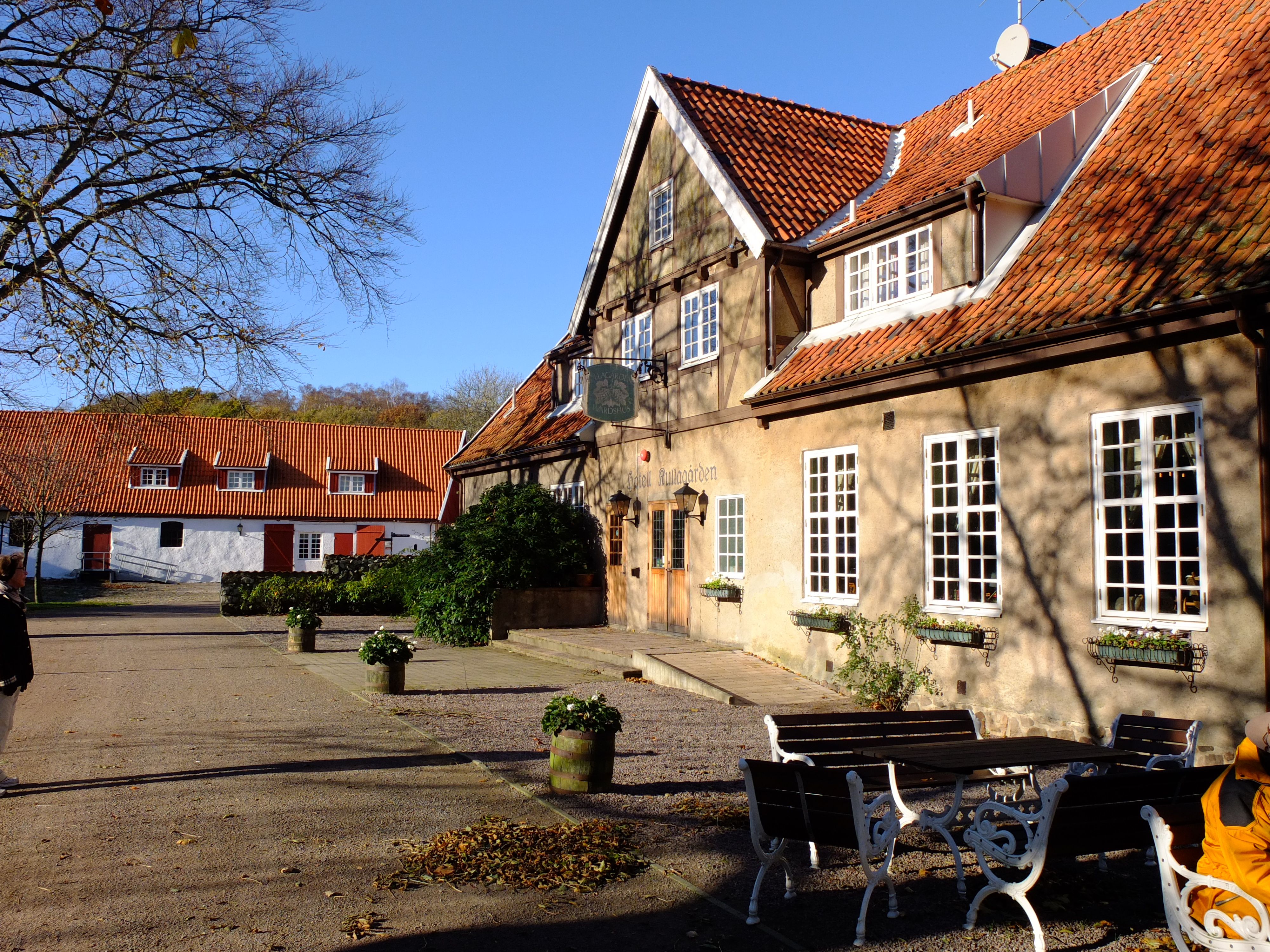 The hotel and restaurant "Kullagården", Scania, Sweden